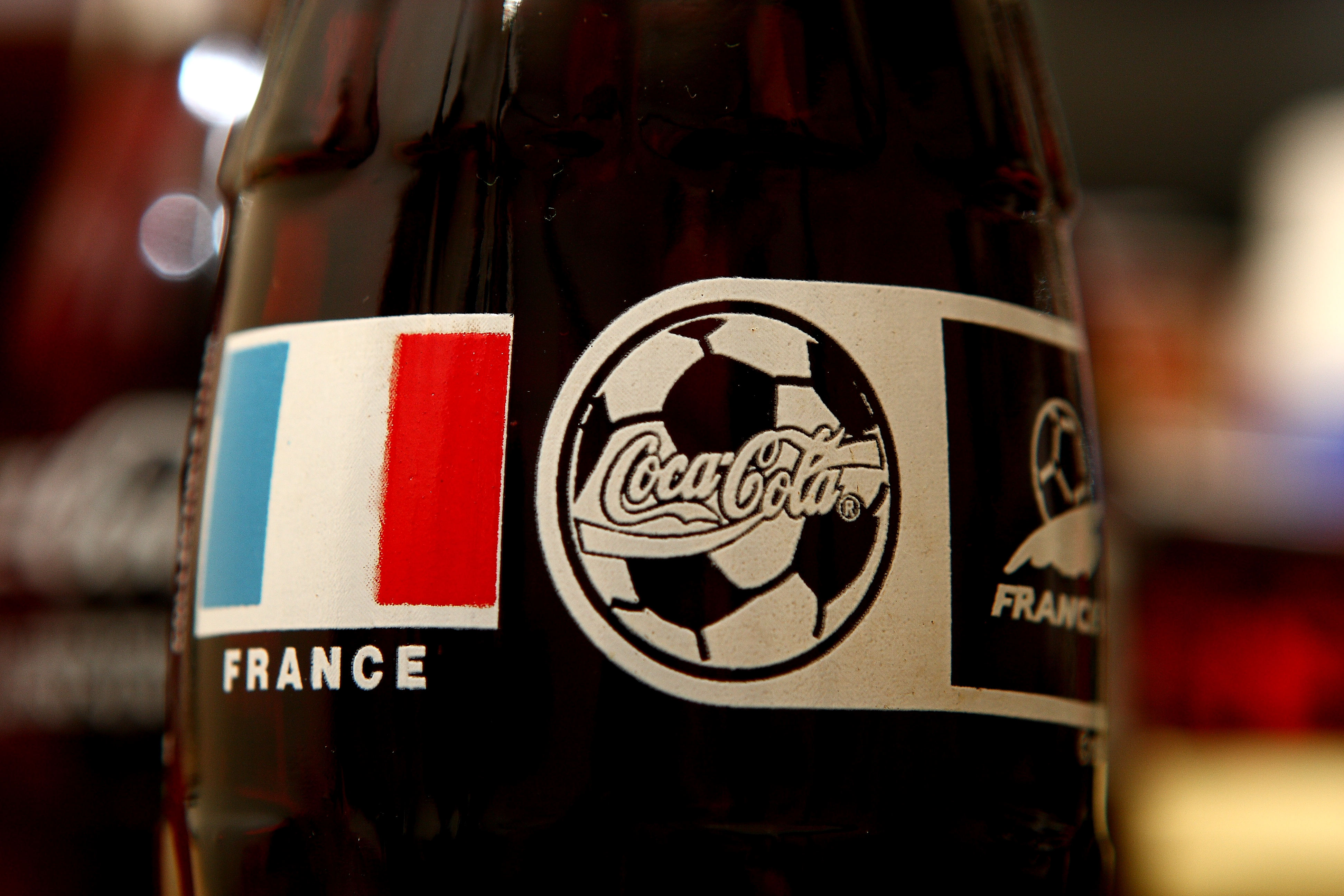 Singapore 1998 France World Cup Coke Bottle-France